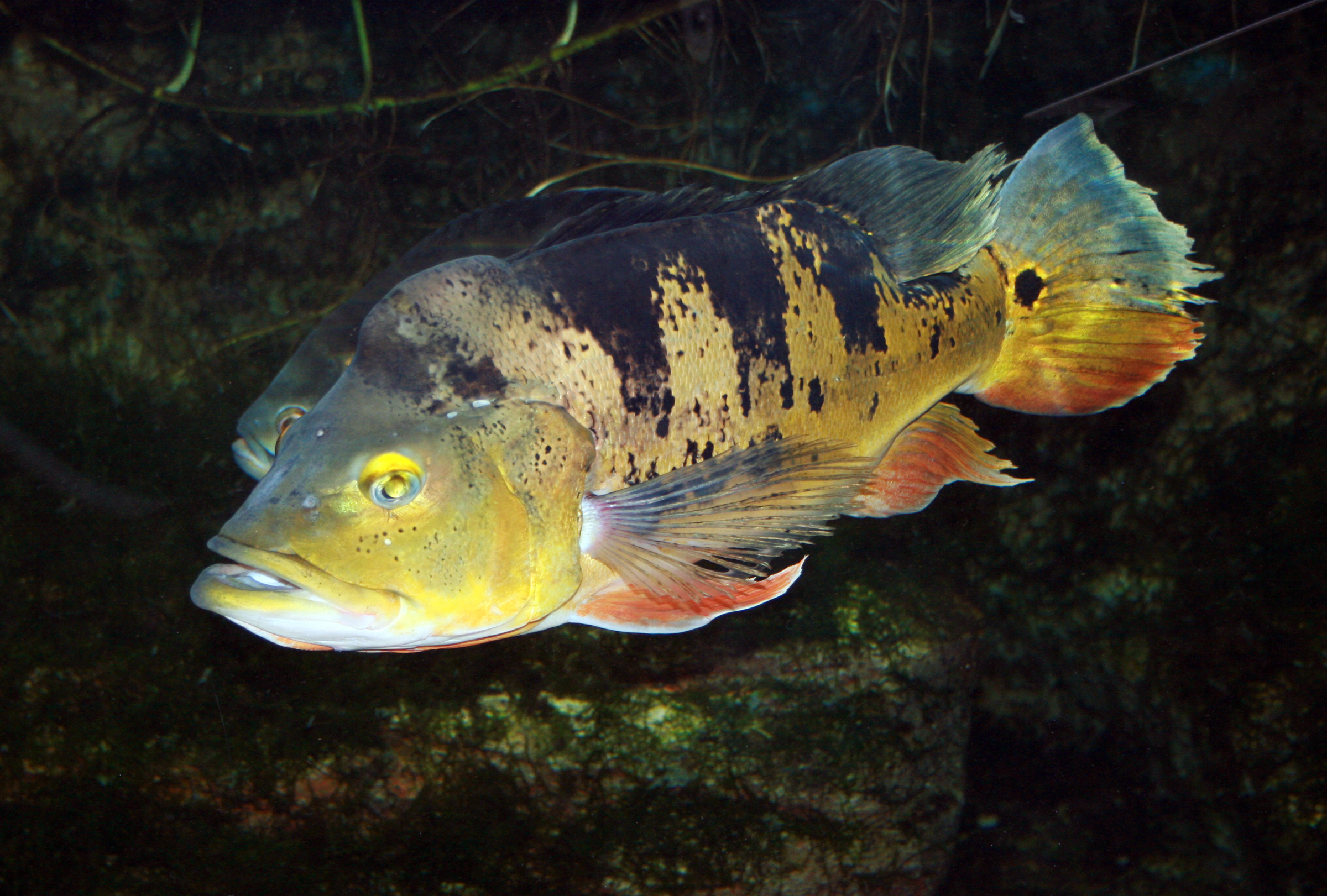 Fish Peacock Cichlid, Cichla ocellaris in ZOO Dvůr Králové, Czech Republic